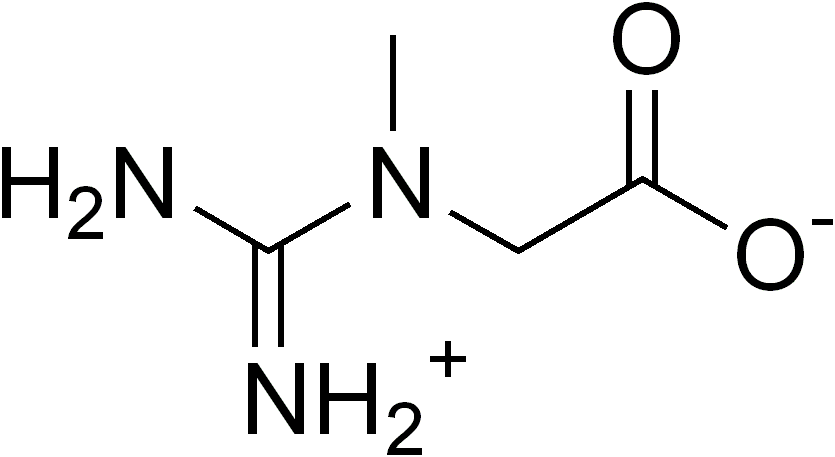 Chemical structure of creatine created with ChemDraw